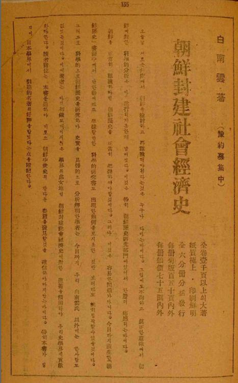 Economic History of Korean Feudal Society, published by Paek Nam-Un in 1937 in Japan